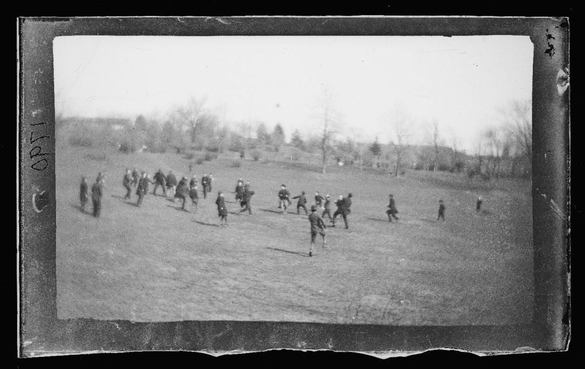 George Bradford Brainerd (American, 1845-1887). Football at Fort Greene, Brooklyn, ca. 1872-1887. Wet-collodion negative. Prints, Drawings and Photographs. Brooklyn Museum/Brooklyn Public Library, Brooklyn Collection, 1996.164.2-1790. (1996.164.2-1790_glass_IMLS_SL2.jpg) Thank you, lochnessa1! This image has been geotagged by lochnessa1 so Brooklyn could be part of the Historypin launch on July 11, 2011. Want to help? See if you can place any of these images on a map! More about #mapBK